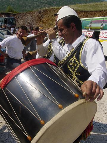 Author: Chmouel Boudjnah. Location: Kosovo, Serbia Description: Albanian drummer wearing a qeleshe singing on the street in Kosovo (near Prizren)